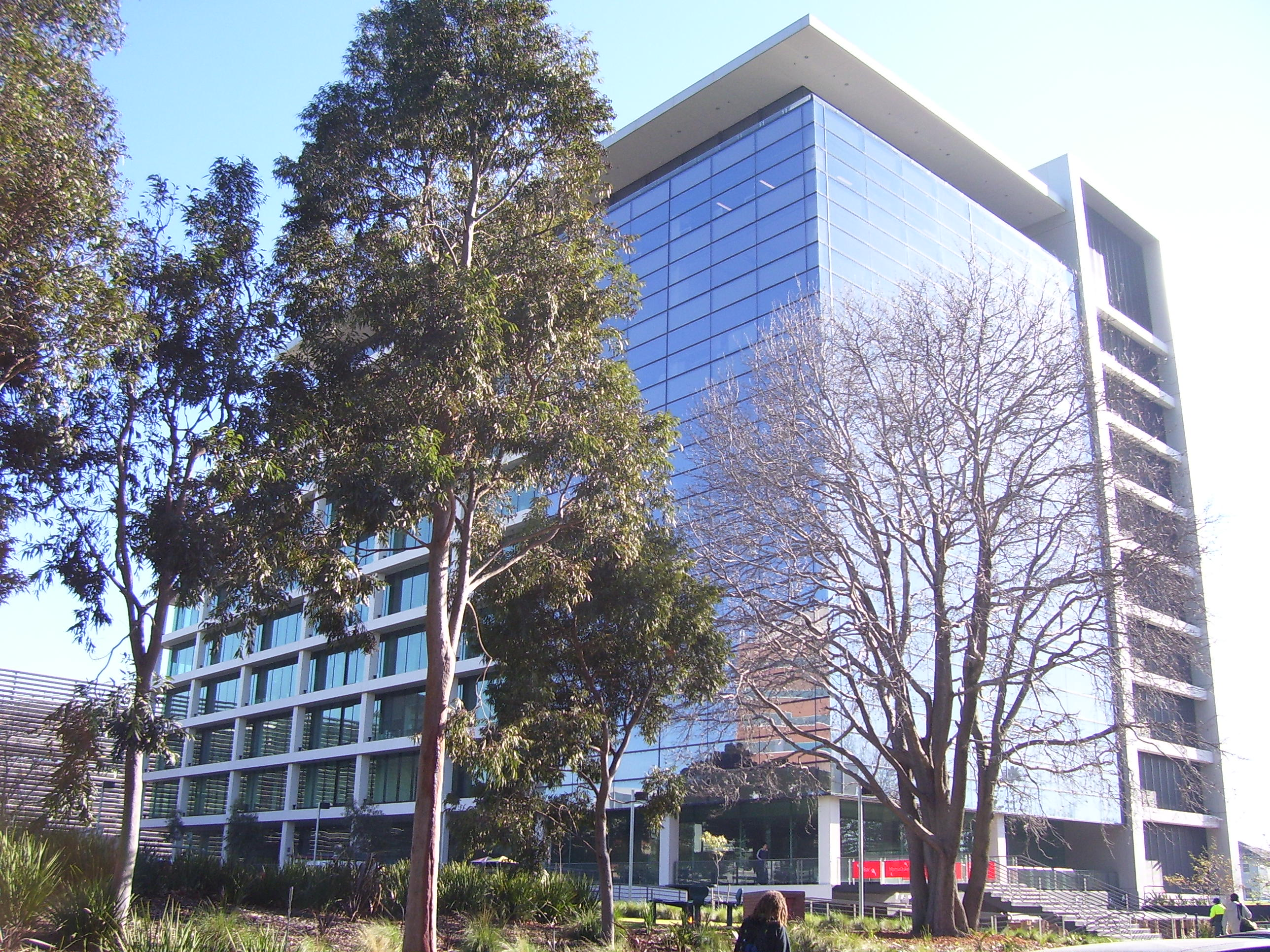 A photo of 'H' building at Monash University's Caulfield campus